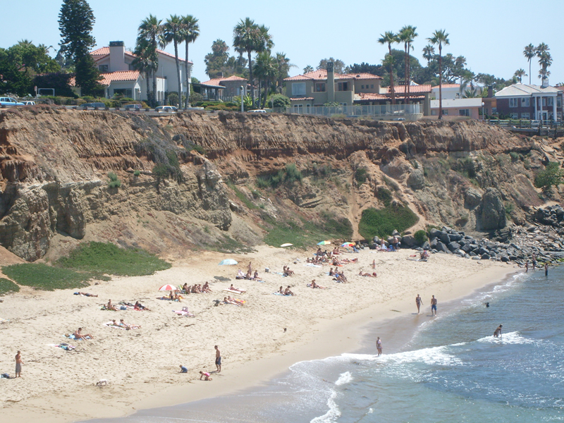 This is the beach below the corner of Sunset Cliffs Boulevard and Cordova Street in San Diego, during the summer of 2008. It's also called "No Surf Beach" by some.